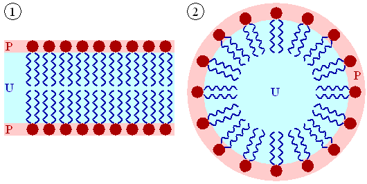 Lipid bilayer and micelle, from Nupedia.